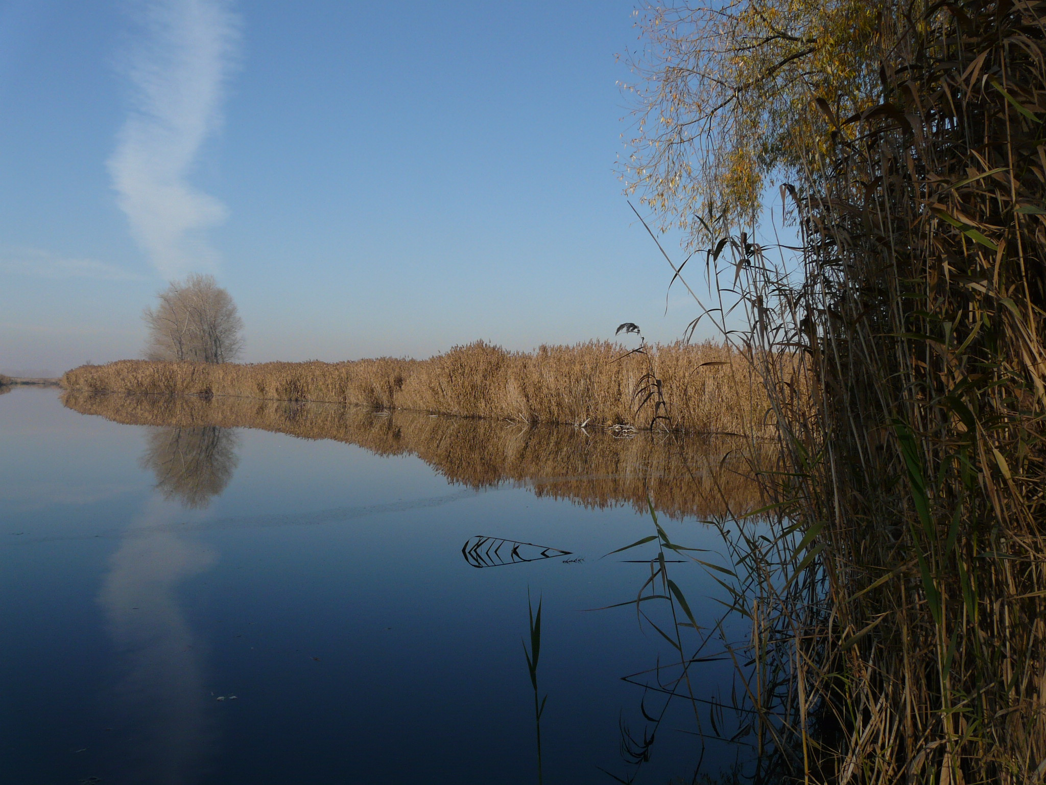 The small lake, Negovan, Bulgaria